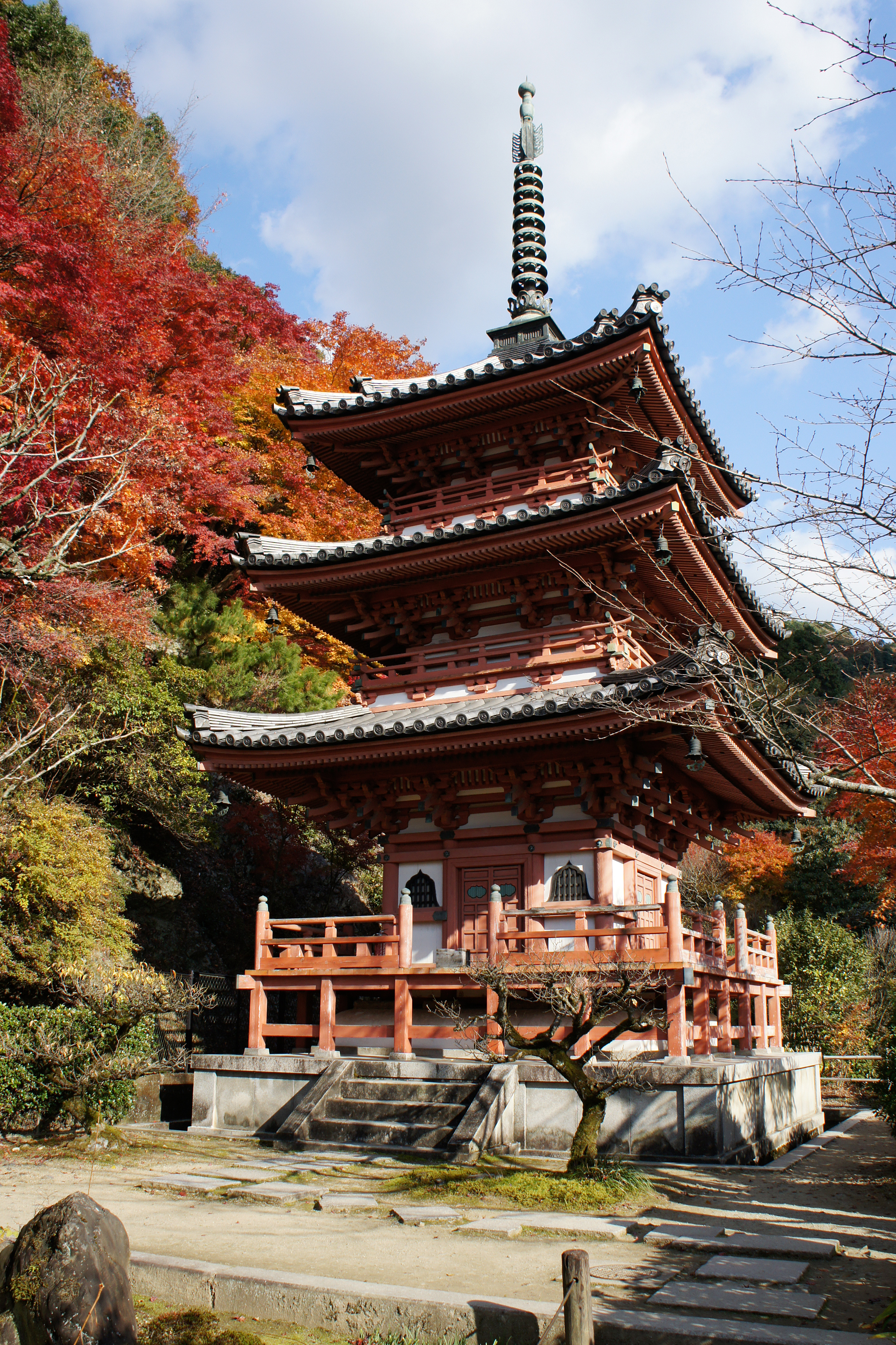 Mimuroto-ji in Uji, Kyoto prefecture, Japan